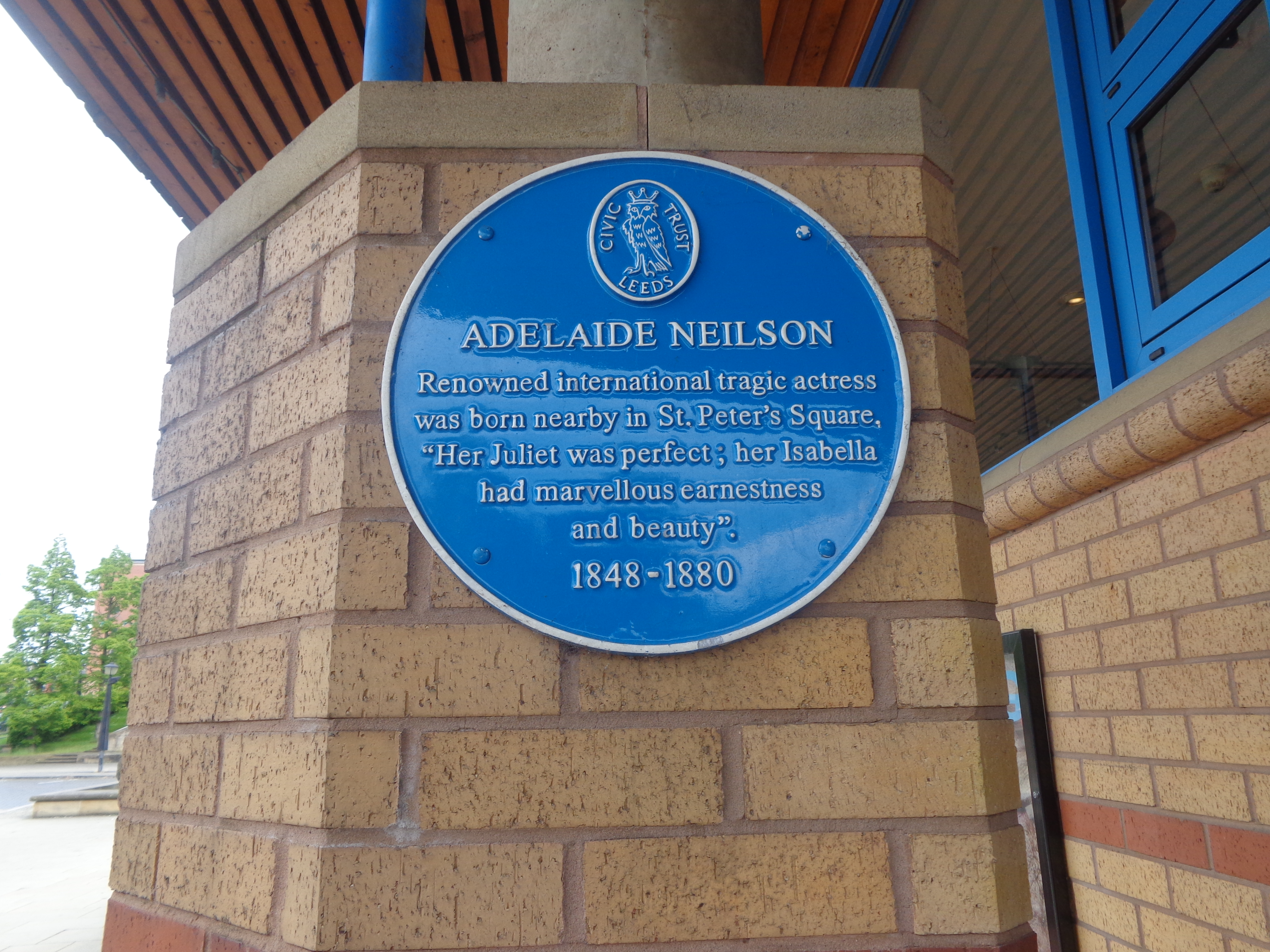 Adelaide Neilson blue plaque, West Yorkshire Playhouse, Quarry Hill, Leeds. Taken on the afternoon of Friday the 30th of May 2014.